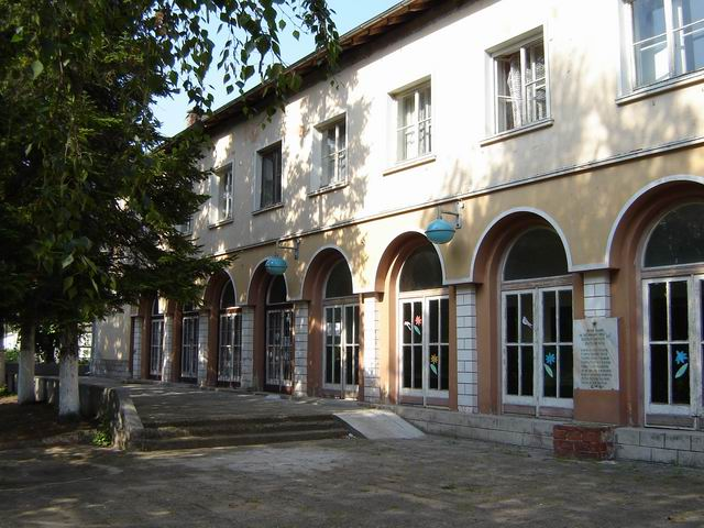 The building of the library in village Vasilovtsi, Montana District, Bulgaria